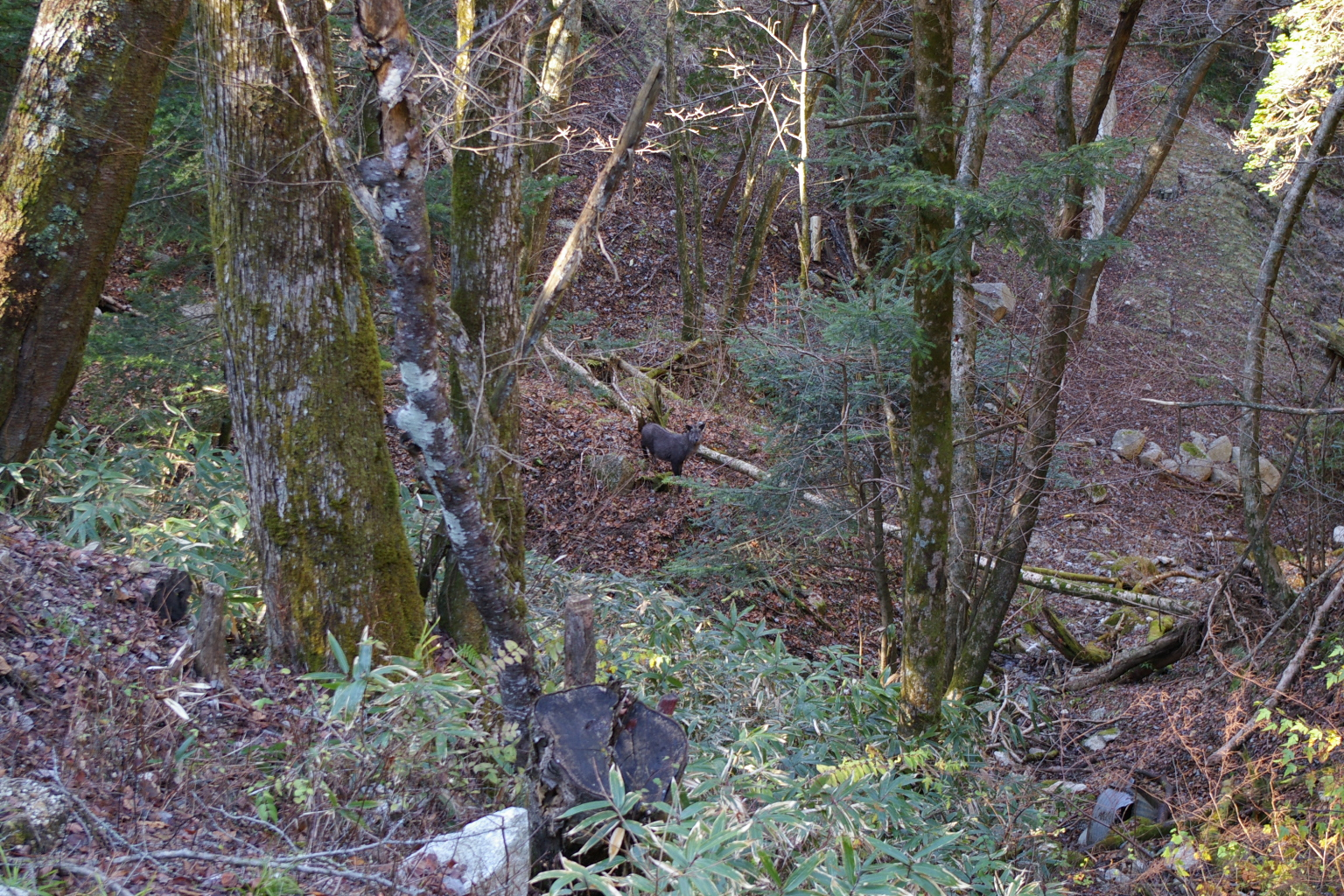 Japanese Serow (Nakatsugawa City, Gifu Pref., Japan)